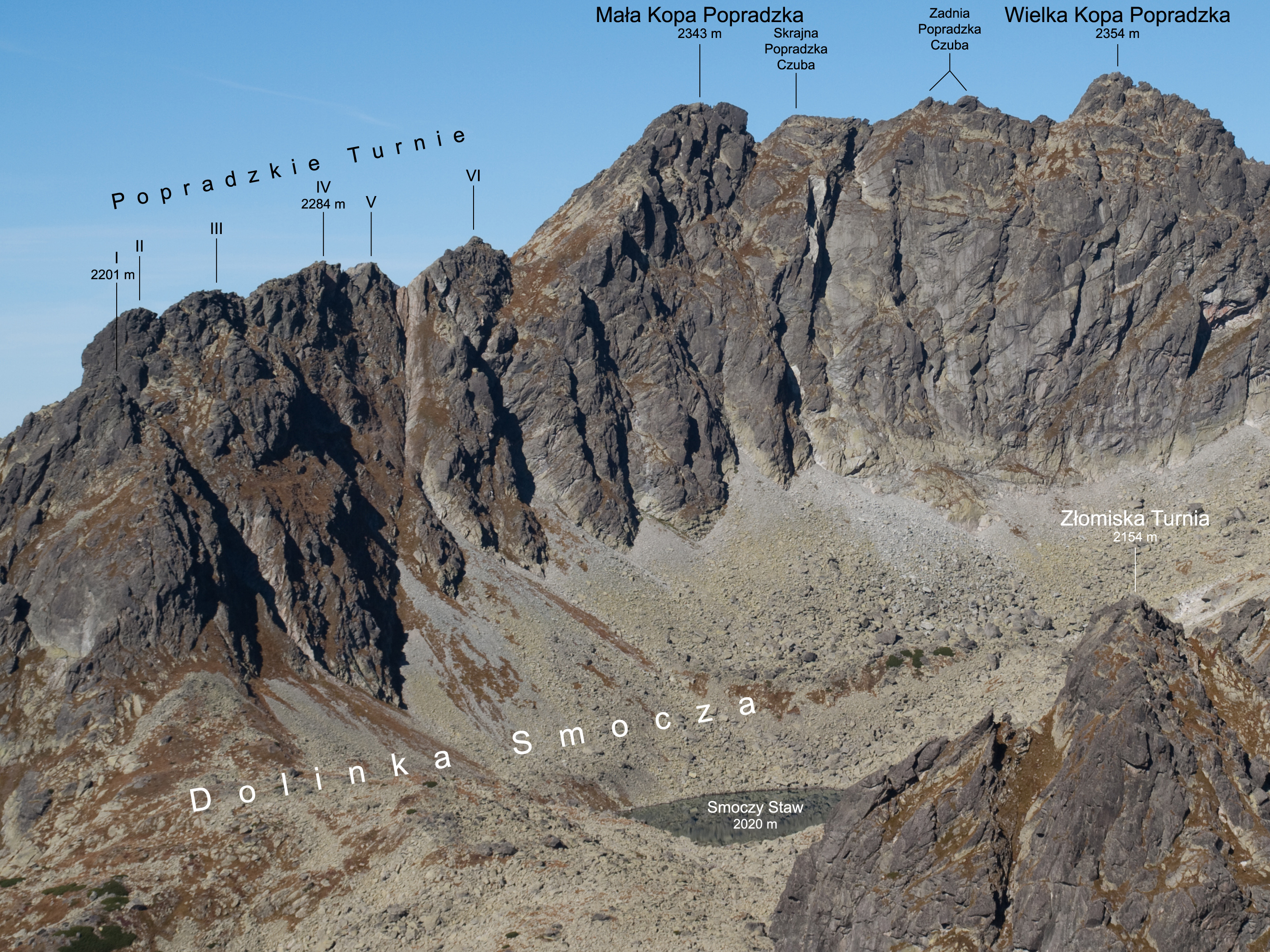 Popradský hrebeň, Kôpky and Dračia valley – view from Lúčne sedlo (Polish captions).